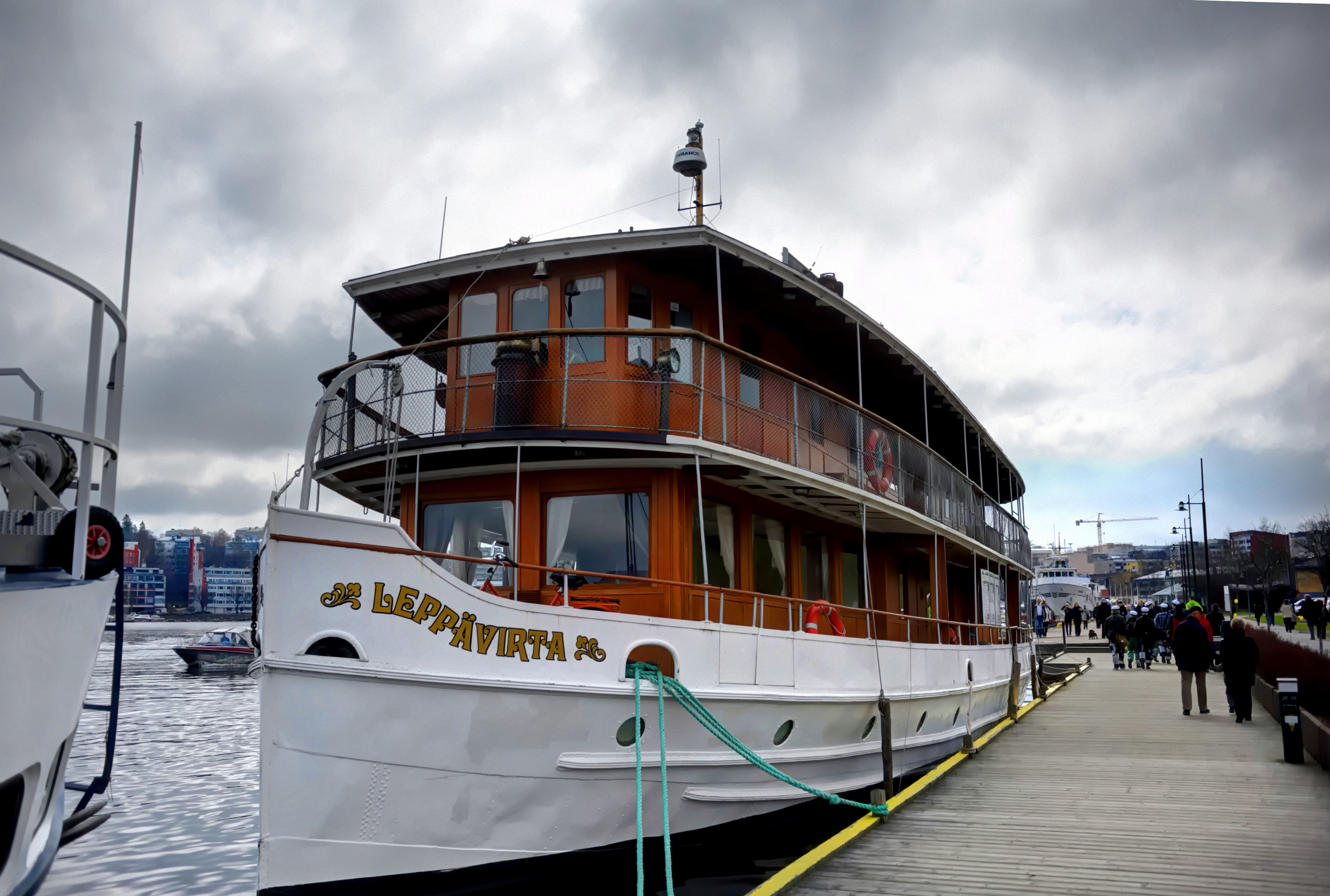 S/S Leppävirta, Lappeenranta April 30st 2016